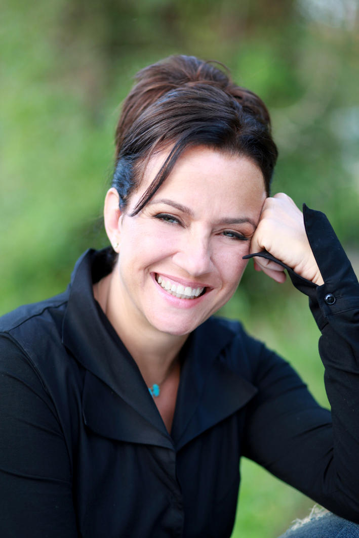 Tsufit Grant